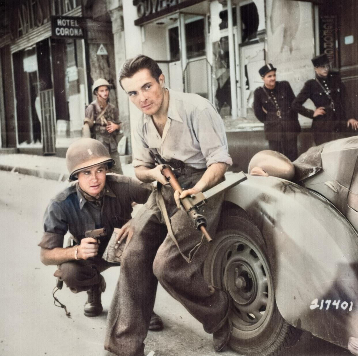 Staged photo of an American officer and a French partisan crouching behind an auto during a street fight in a French city, ca. 1944. 111-SC-217401.